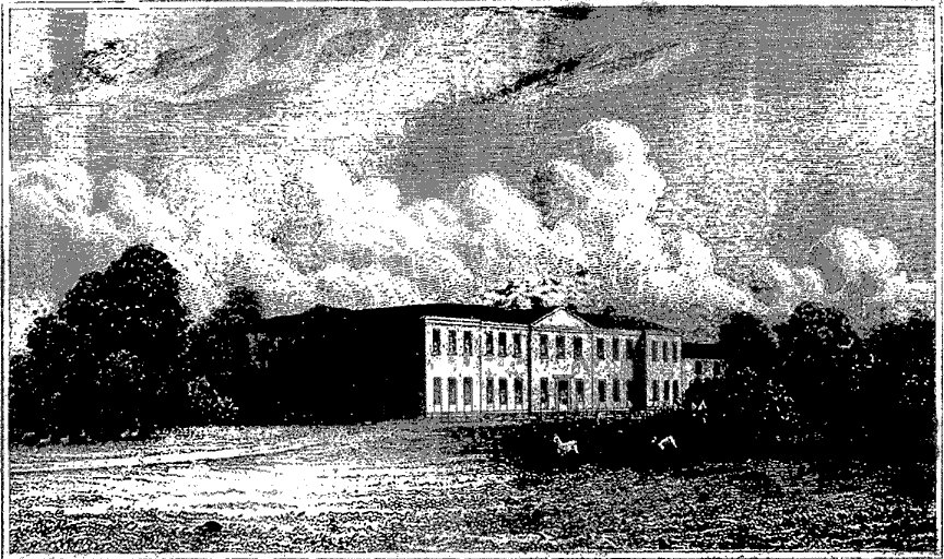 Rise Hall, Rise, East Riding of Yorkshire, England.Drawing of Rise Hall from around the time of it's construction 1815-1820